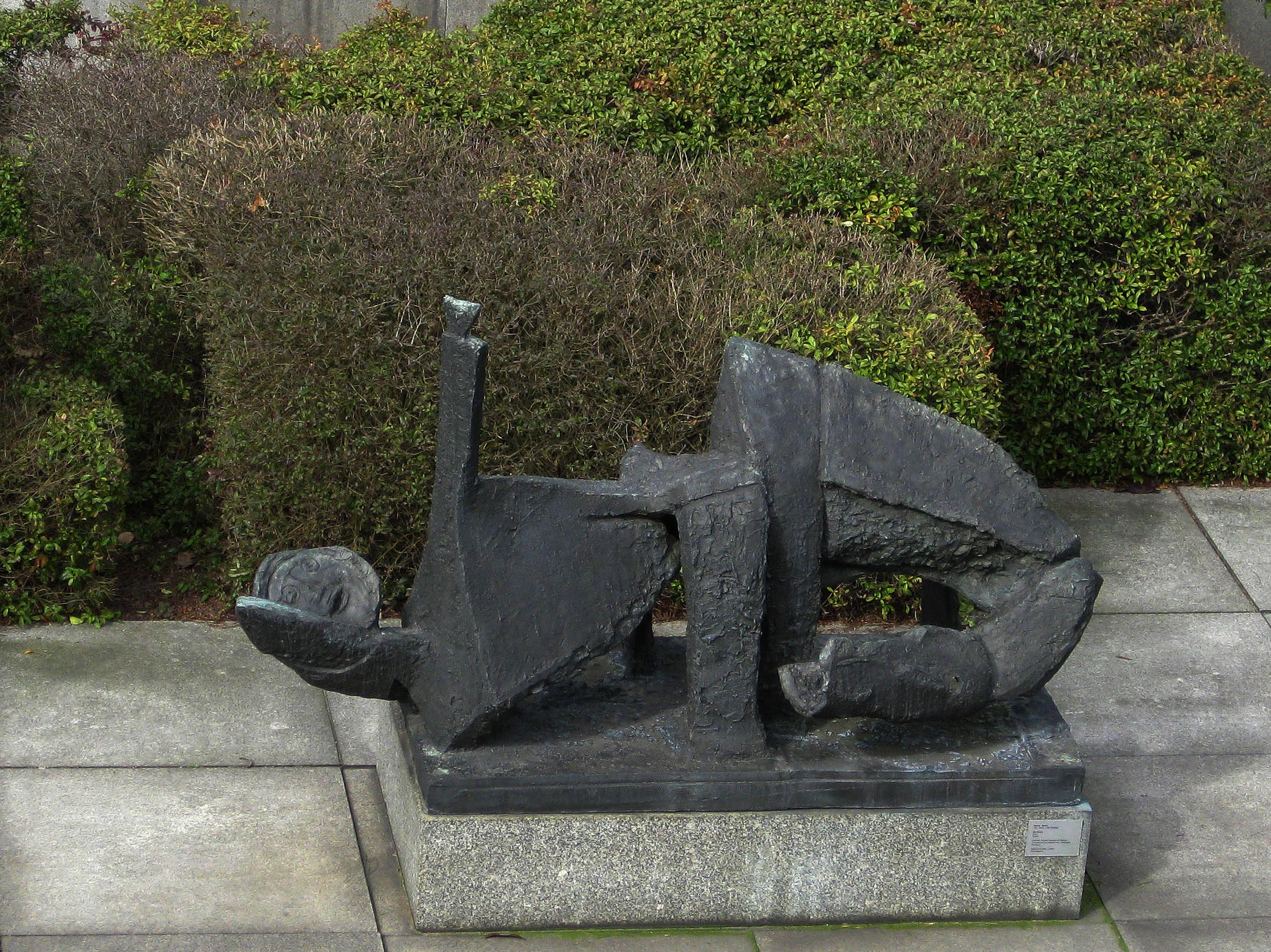 Marino Marini, Der Schrei, 1963, Skulpturengarten der Nationalgalerie